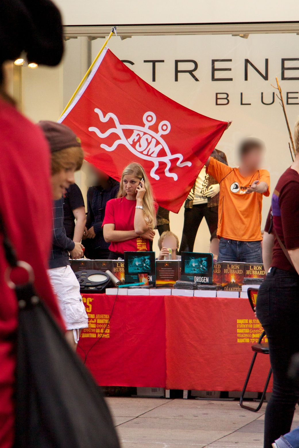 The scientologist lady seems not amused. Flying Spaghetti Monster partisans from the German pirate party occupy a scientology booth on Alexanderplatz, Berlin.